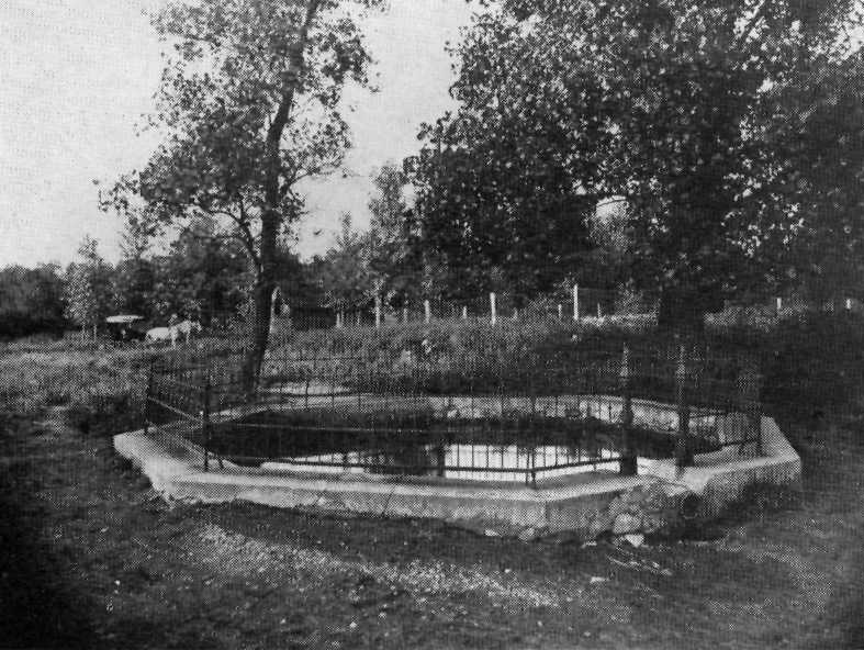 Mammoth Spring on Spring Road near Salt Creek in York Township, DuPage County, Illinois and now in Oak Park, Illinois